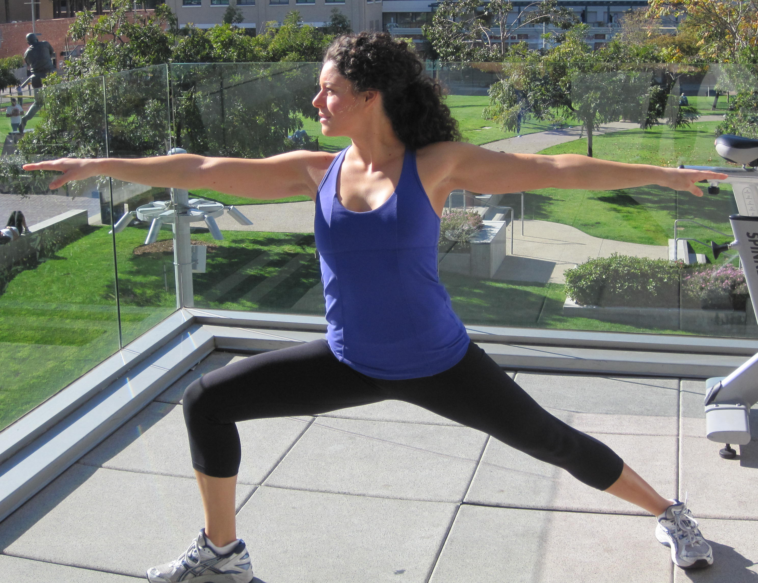 Woman in tank top and leggings performing Warrior II pose.